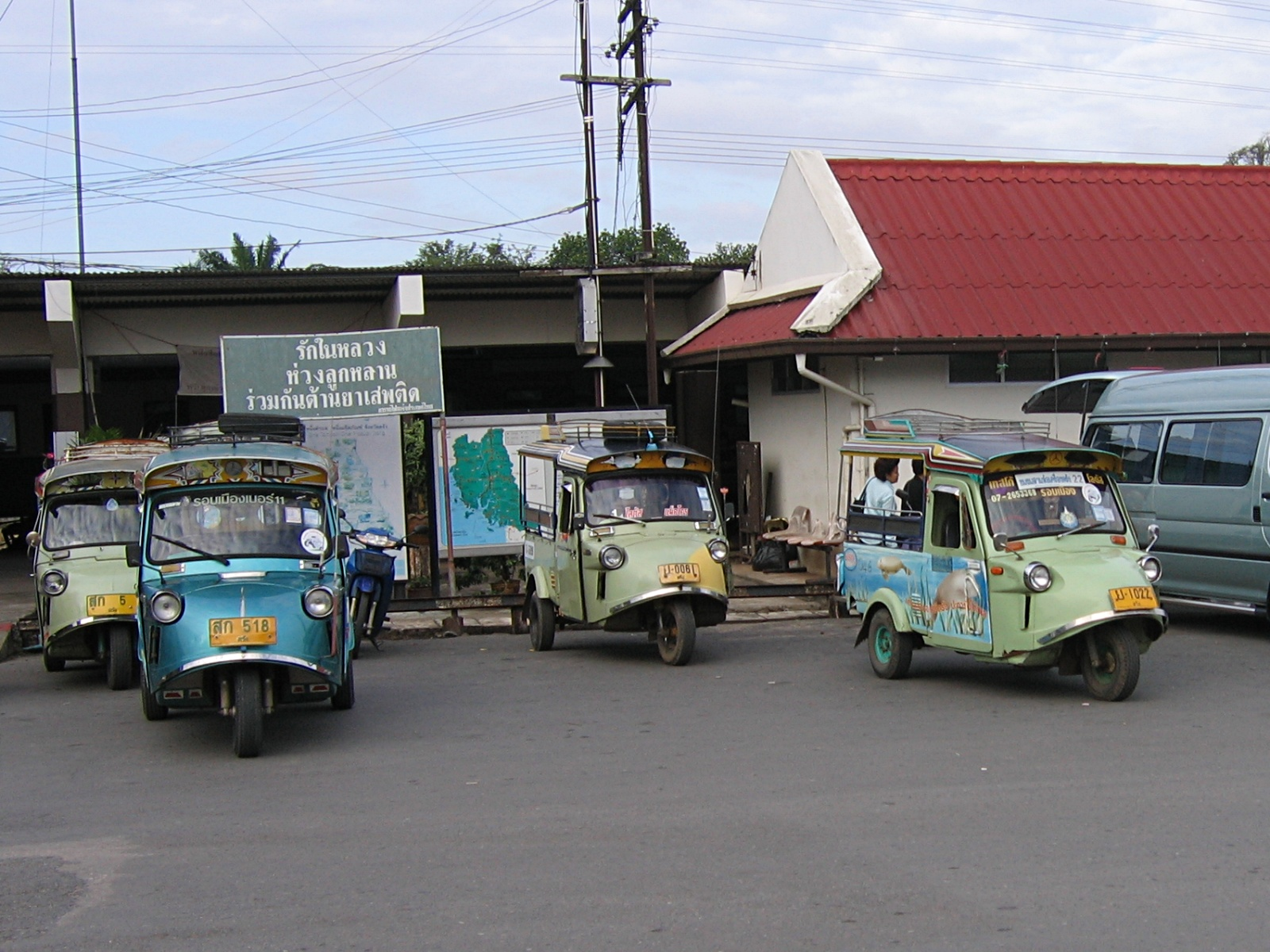 Tuk Tuk in Trang